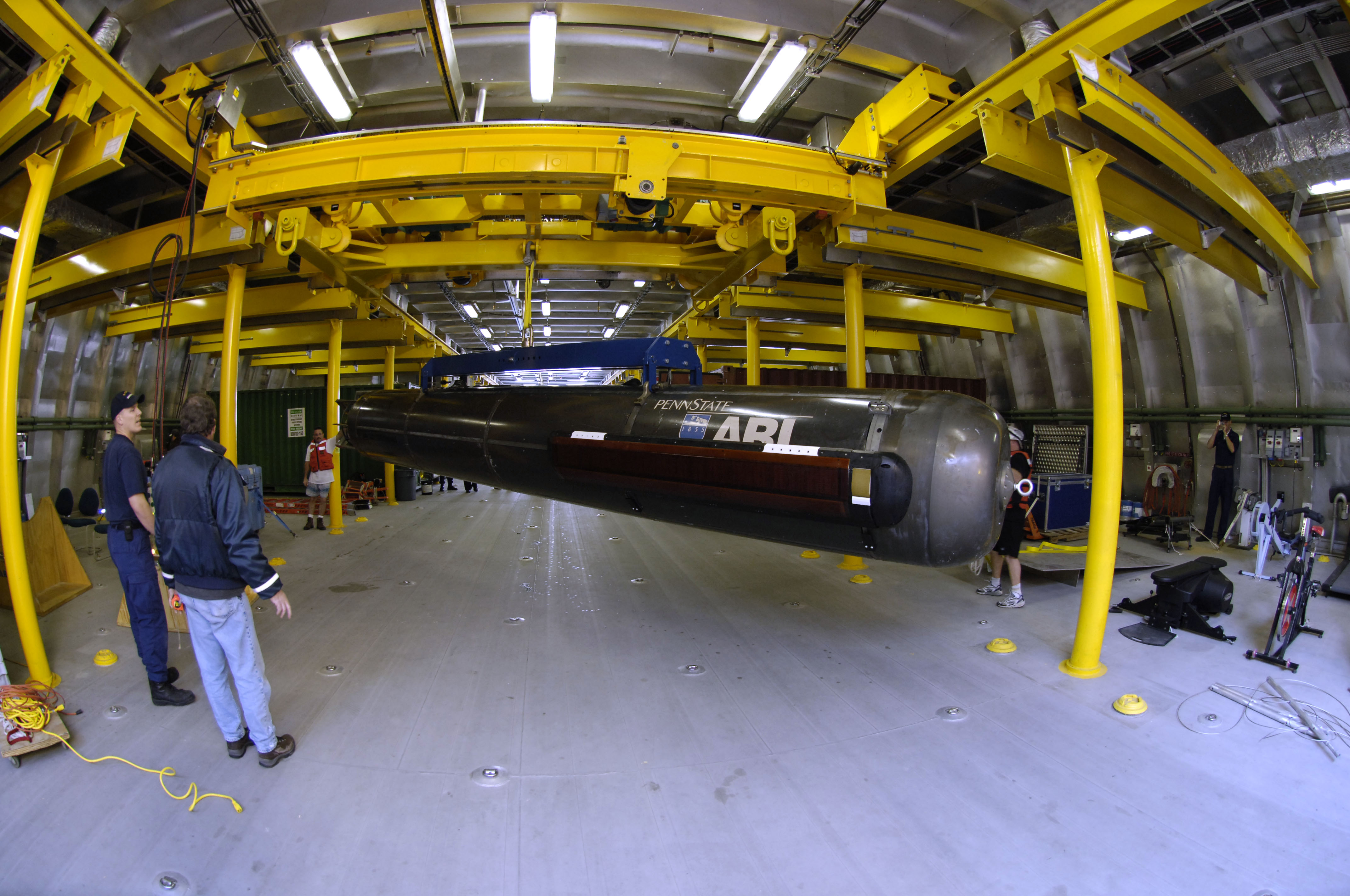 San Diego (Jan. 30, 2006) - The Seahorse-class Autonomous Underwater Vehicle (AUV) from the applied research laboratory at Penn State University is maneuvered into position in Sea Fighter's (FSF-1) mission bay during launch and recovery testing. At 28 feet, six inches, and weighing 10,800 pounds, Seahorse is an untethered, unmanned, underwater robotic vehicle, capable of pre-programmed independent operations. The Office of Naval Research (ONR) sponsors the demonstration. U.S. Navy photo by Mr. John F. Williams (RELEASED)